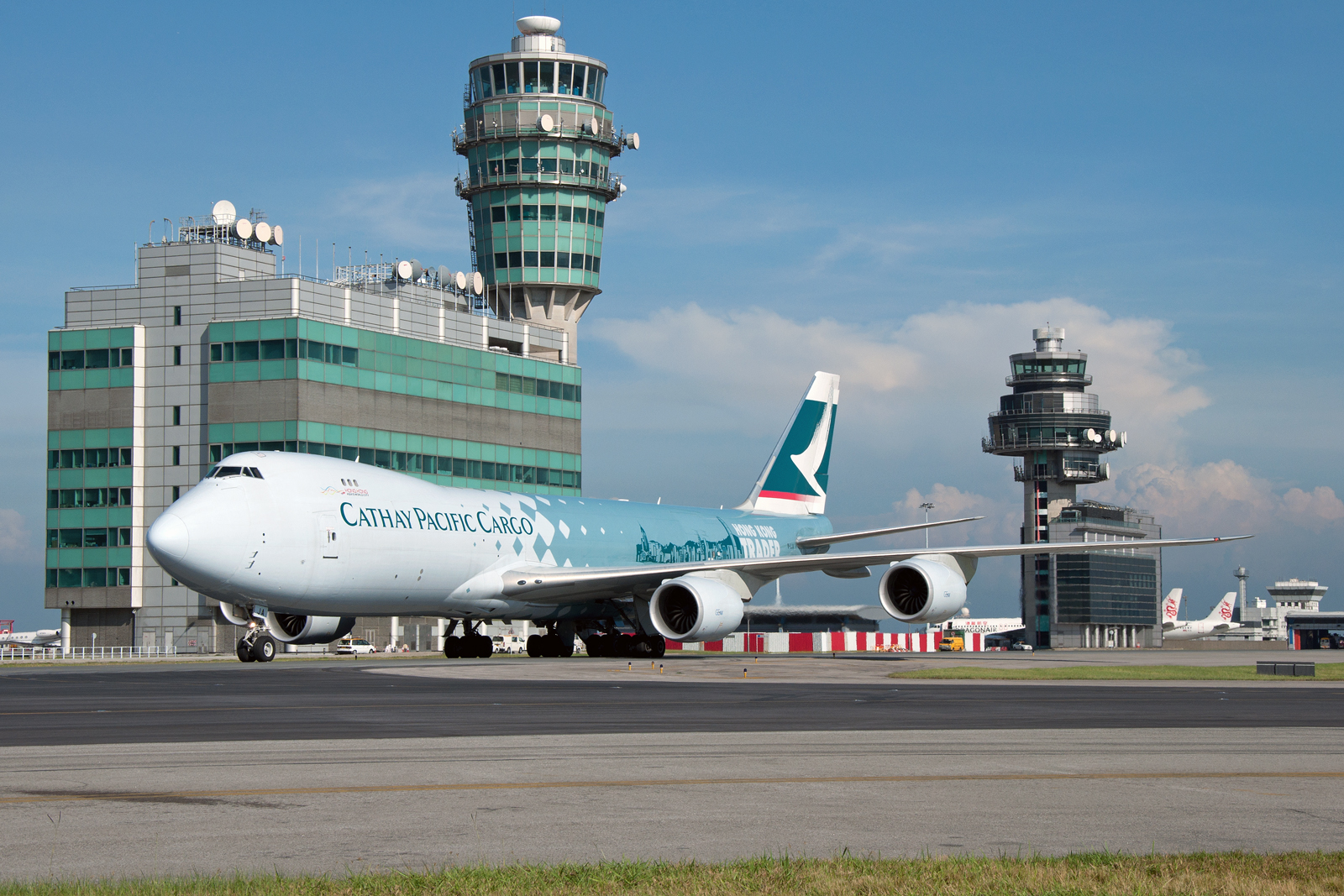 HKG Tower and HKG trader